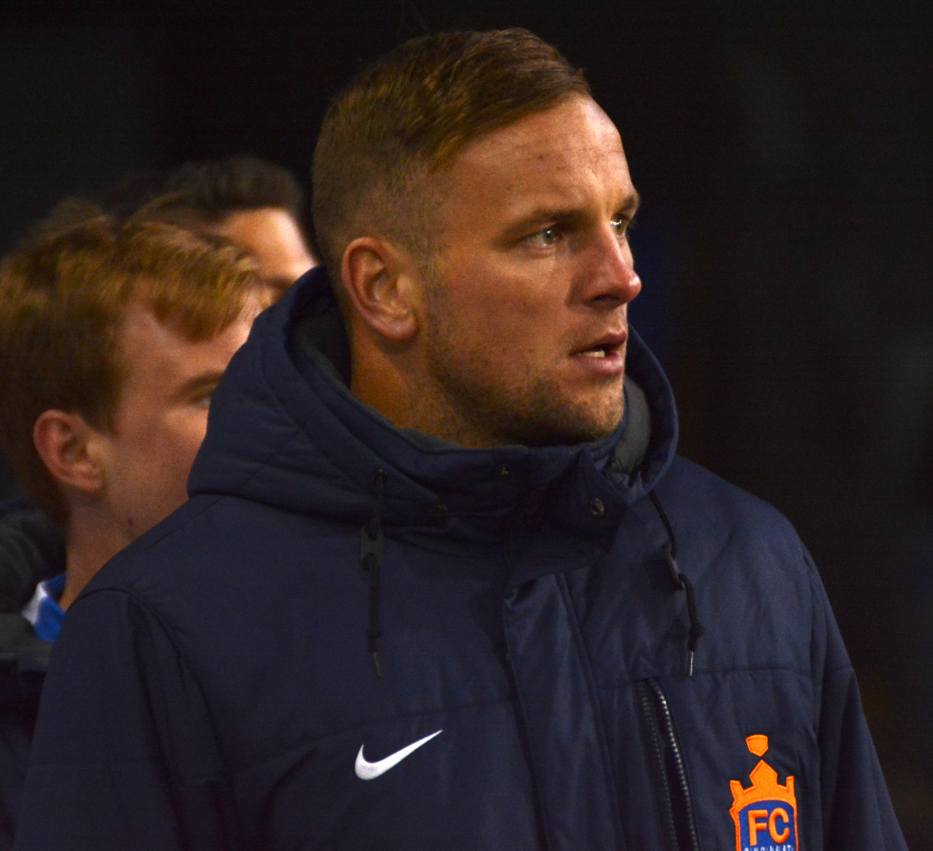 A portrait of Irish footballer Paddy Barrett, a defender for FC Cincinnati, standing on the sideline as a substitute during a match. Taken during FC Cincinnati's home opener against Louisville City FC at Nippert Stadium in Cincinnati, USA on April 7, 2018.